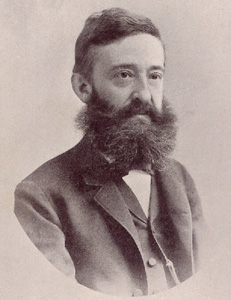 Photograph of the U.S. entomologist George Henry Horn